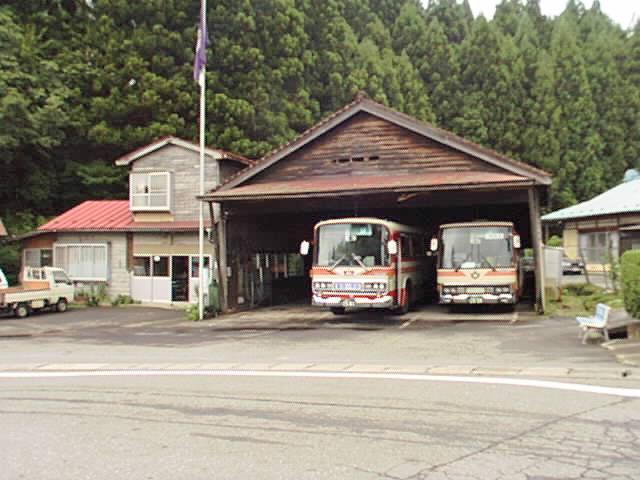 Iwate Kenpoku Bus Omoe Depot in Miyako City, Iwate Prefecture, Japan